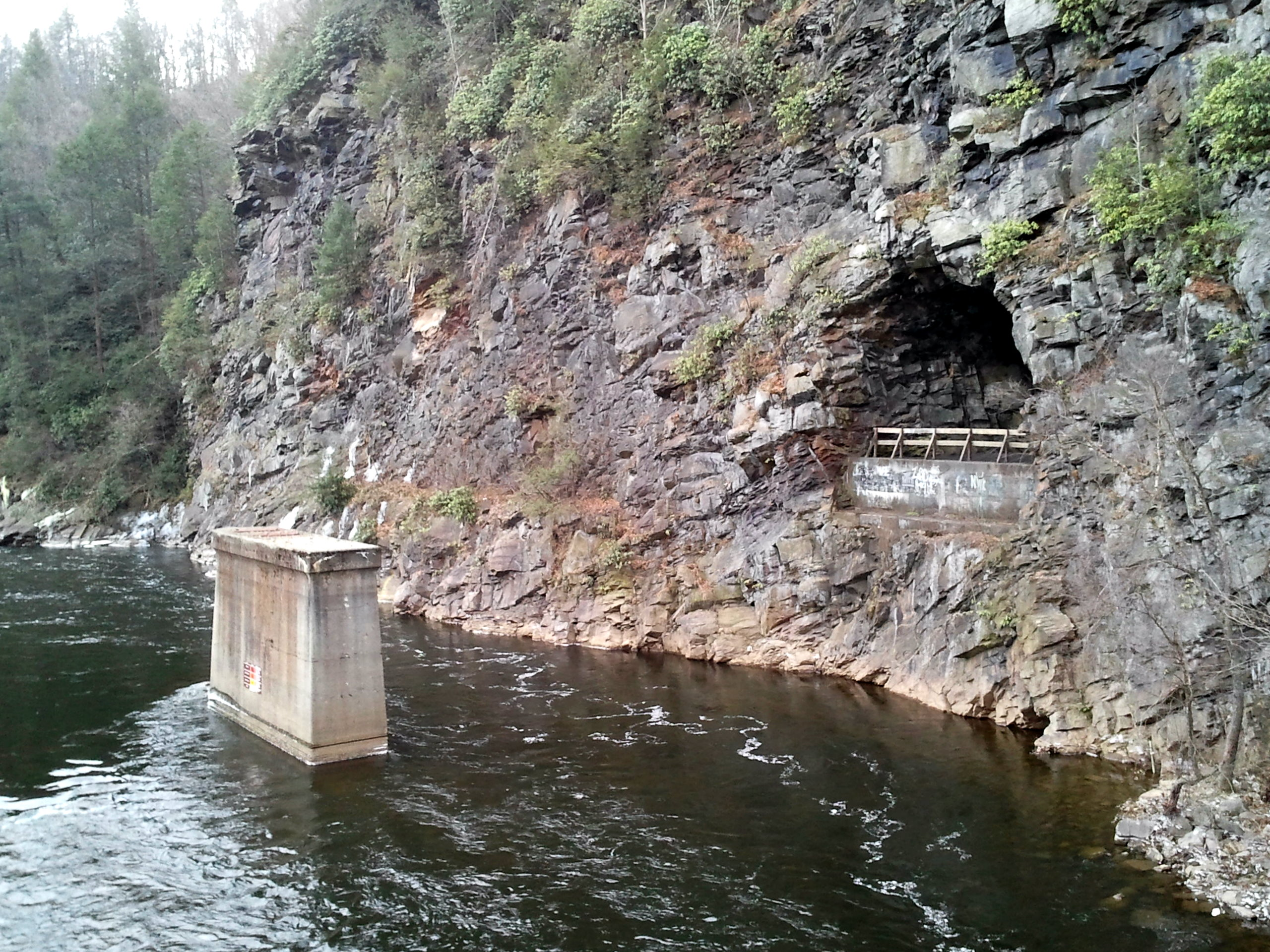 Turn Hole Tunnel, an abandoned railroad tunnel near Jim Thorpe, Pennsylvania built by the Central Railroad of New Jersey.